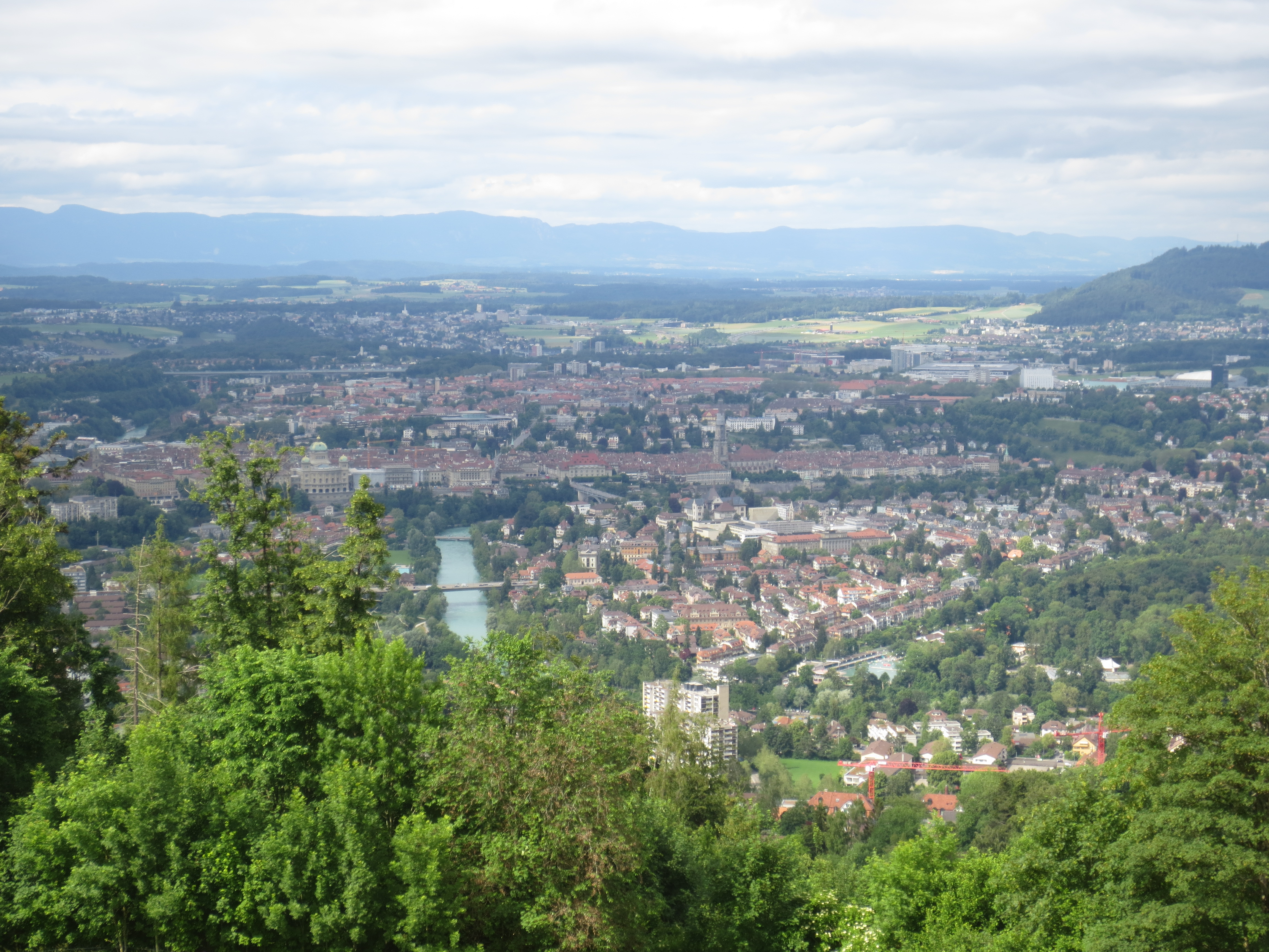 Bern seen from the Gurten.